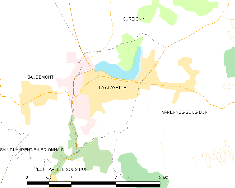 Map of French municipality